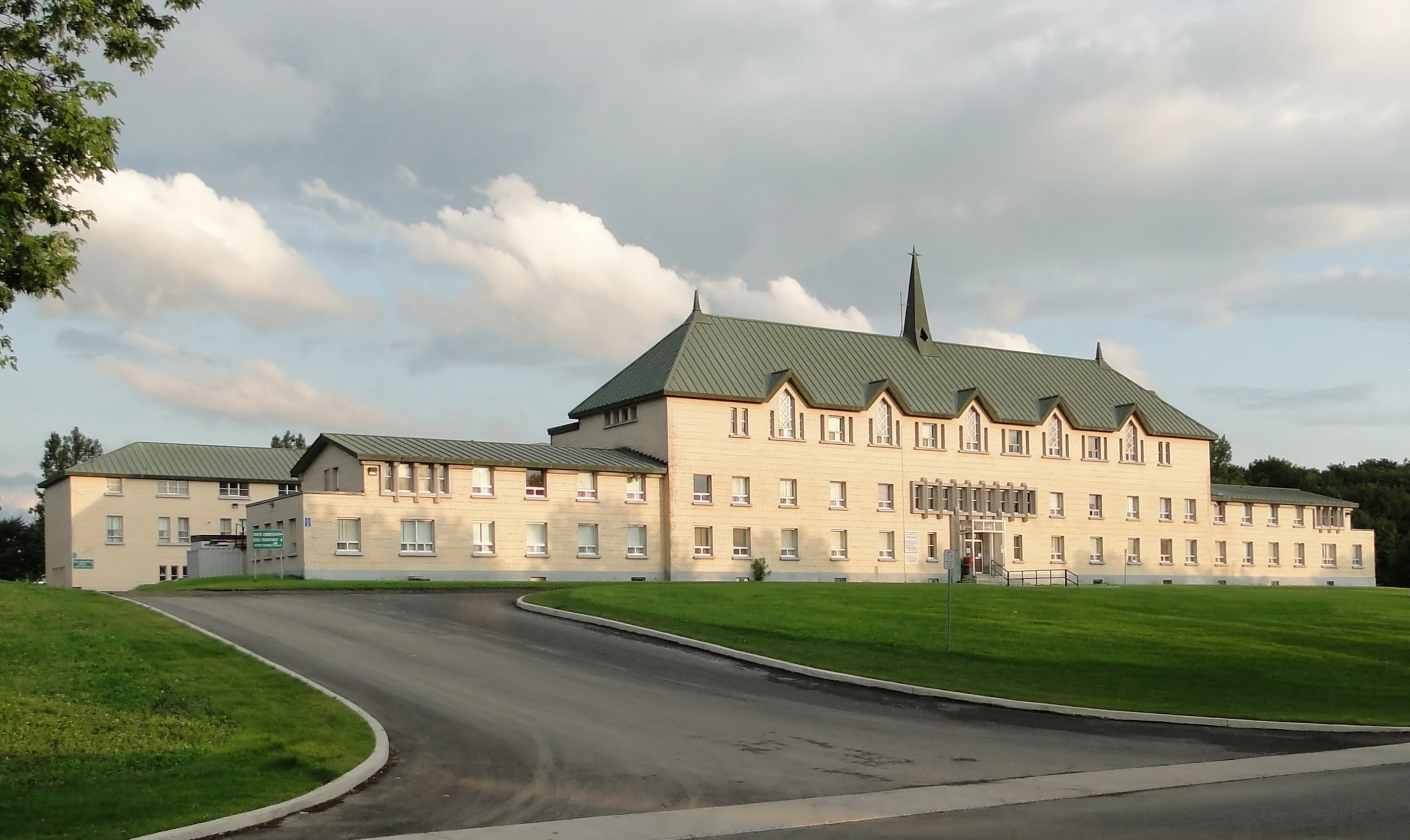 Champagnat high school, Lévis, province of Quebec, Canada